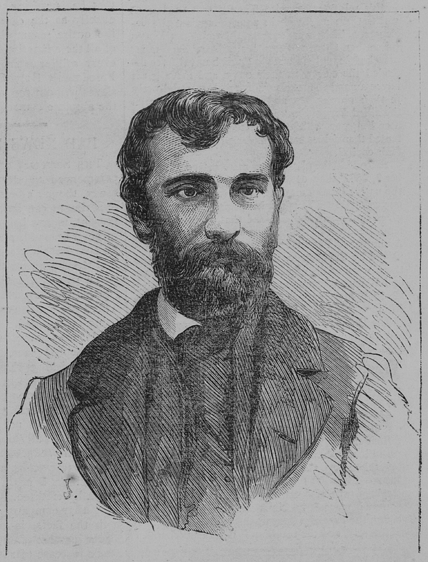 General Henry Andres Burgevine, commander of the Ever Victorious Army.